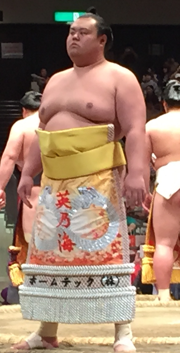 Taken at May tournament 2015